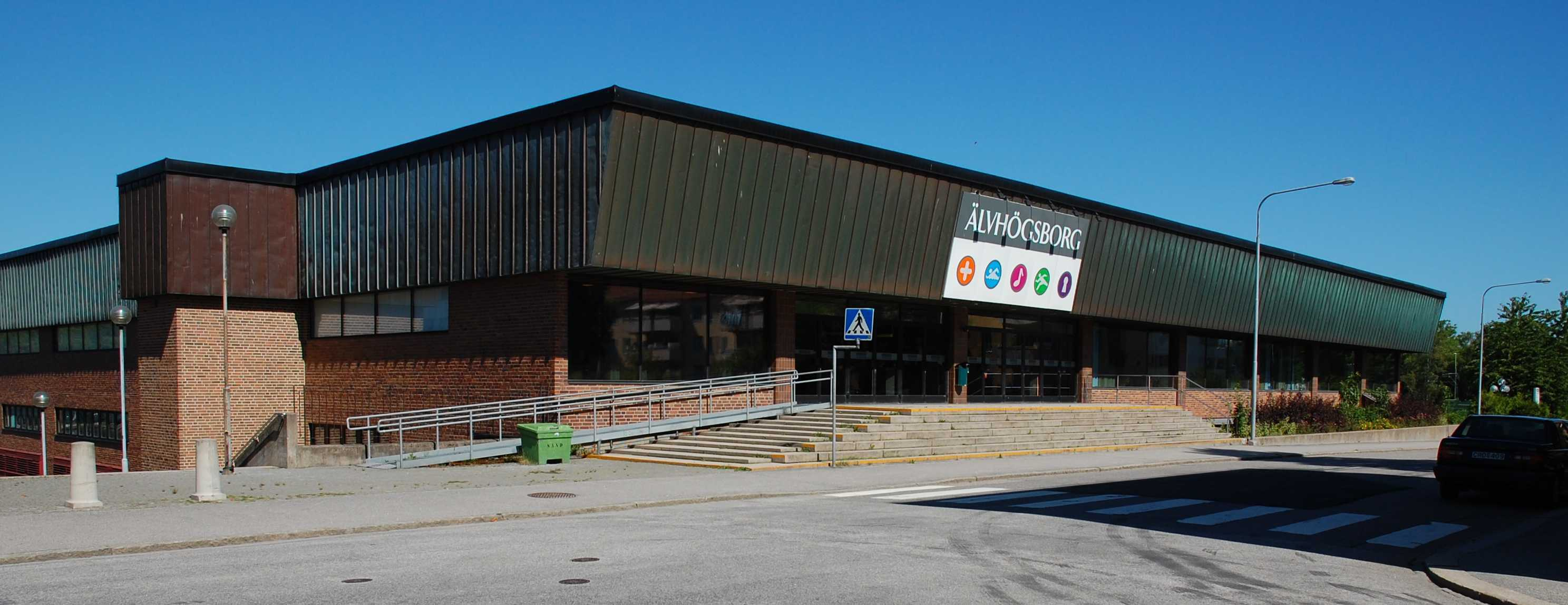 Älvhögsborg, Sweden